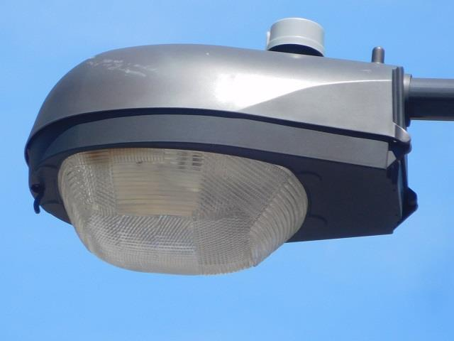 History of street lighting